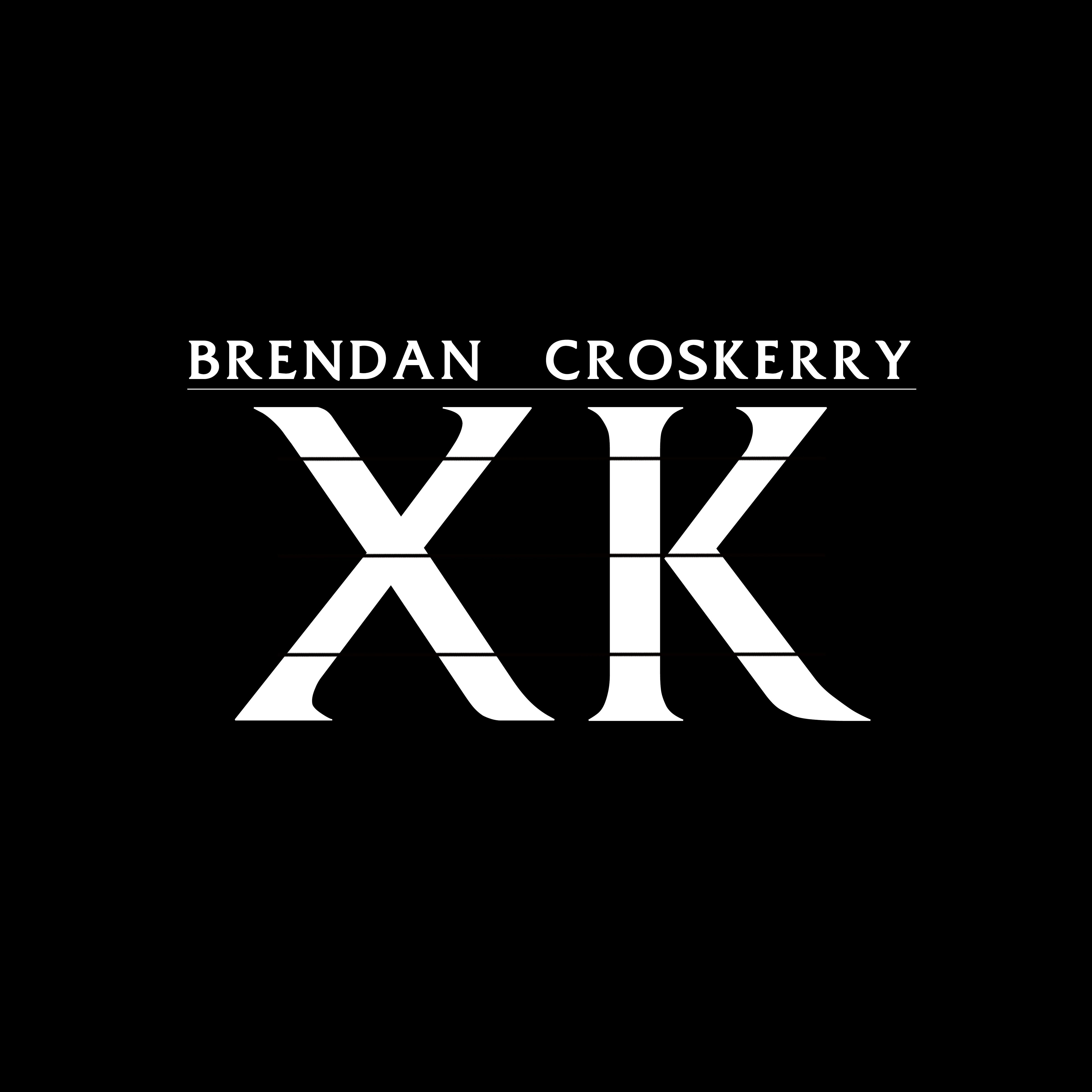 Cover for the 2015 album, XK, by Brendan Croskerry